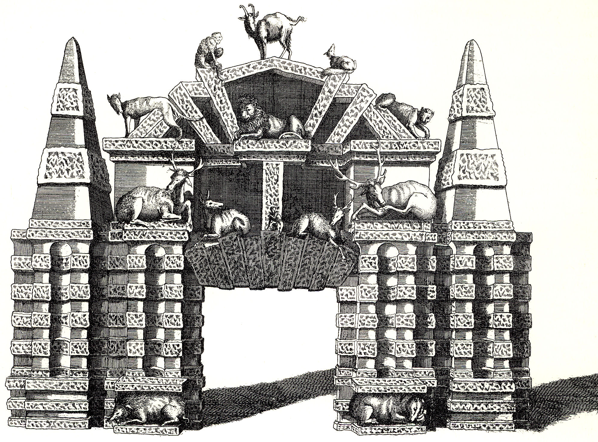 historic drawing of Heidelbergs Hortus Palatinus